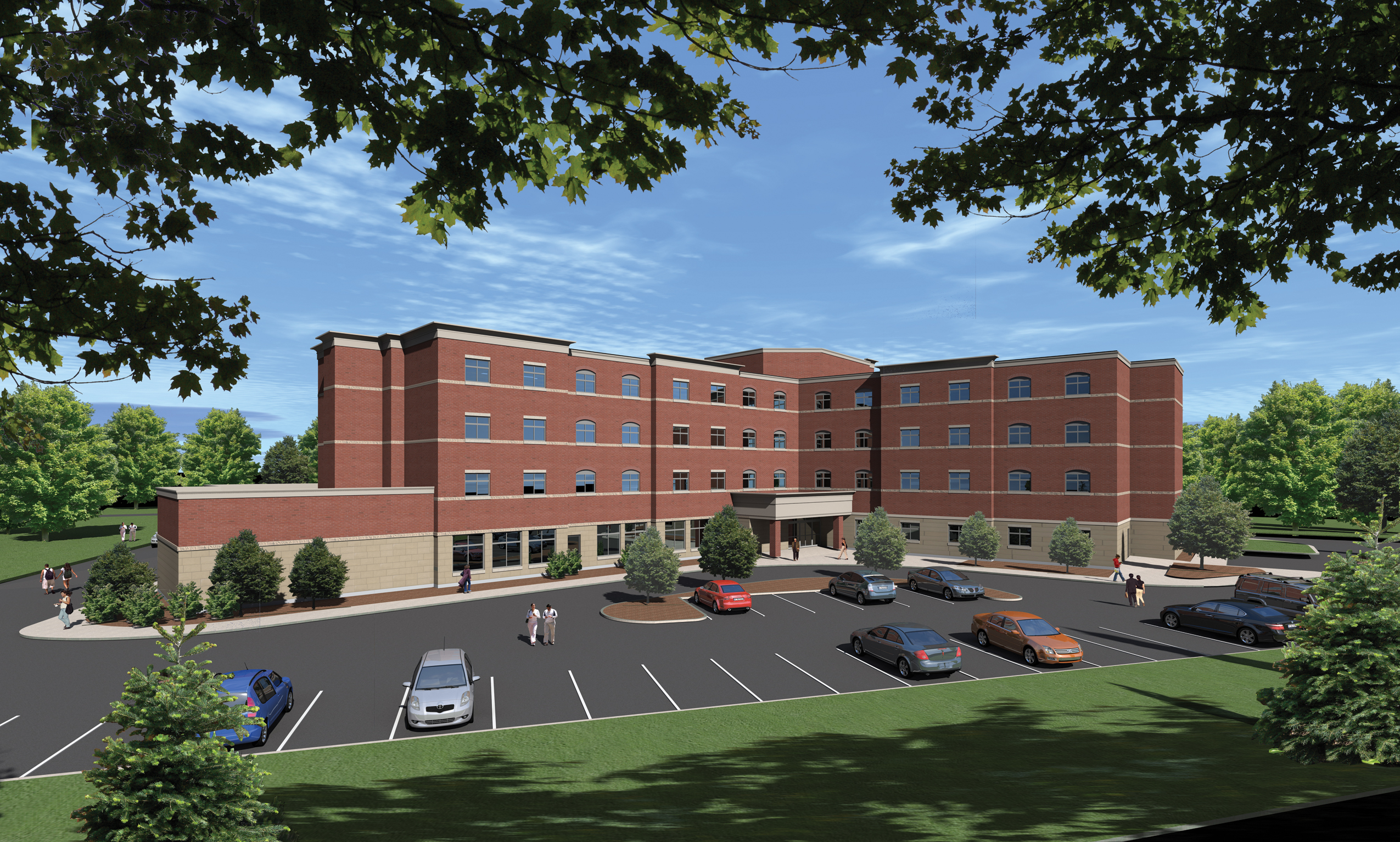 new residence